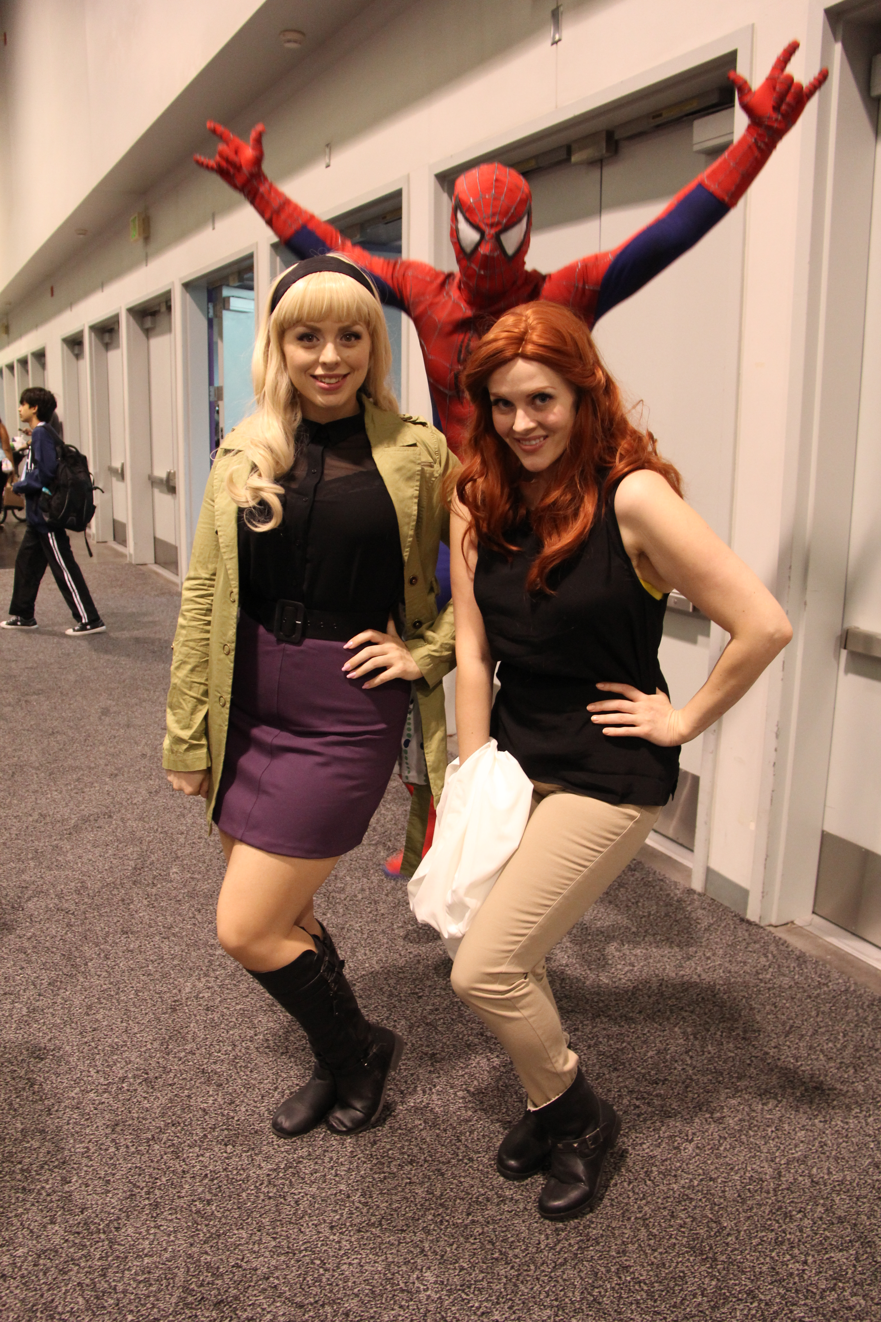 A cosplay of Spider-Man [center], Gwen Stecy [left] and Mary Jane [right] by @AlterverseCosplay [on Twitter and Instagram]